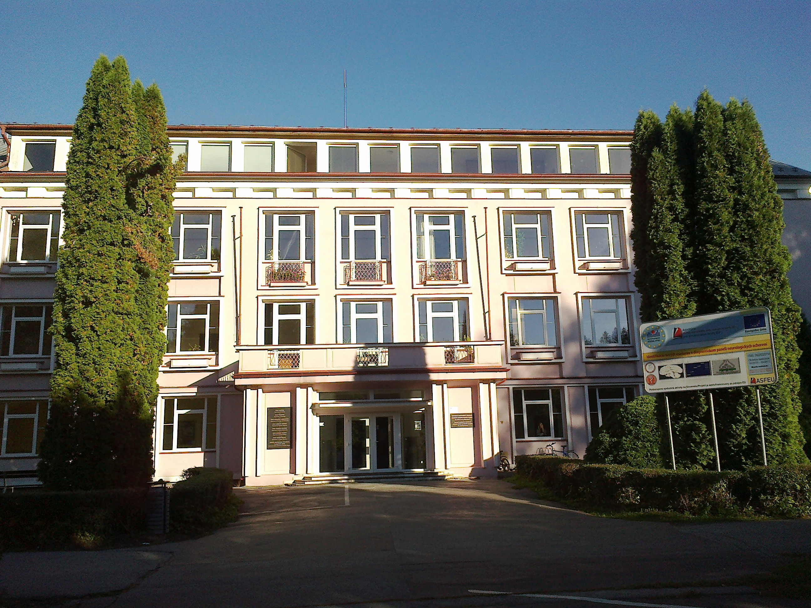 Main building at Jessenius school of medicine.